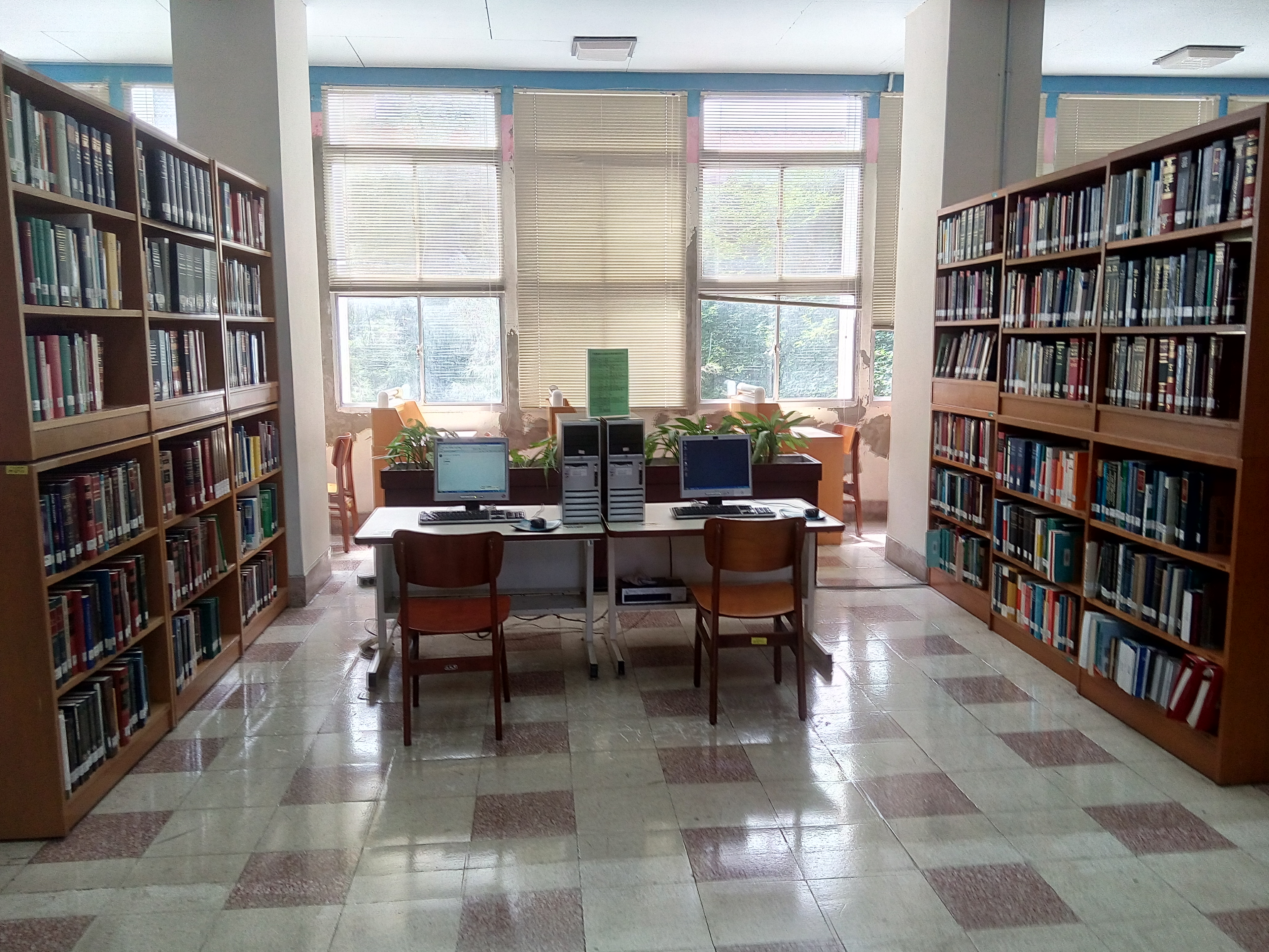 Aletheia University Library second floor. There has many English books and Religion books. Set studying table. No power-charge accessible.